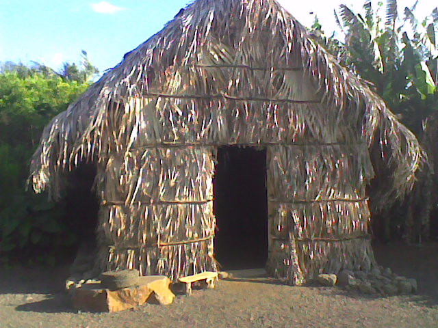 Domaine de Café Grillé, Pierrefonds, La Reunion. Straw hut where the slaves slept at the time.